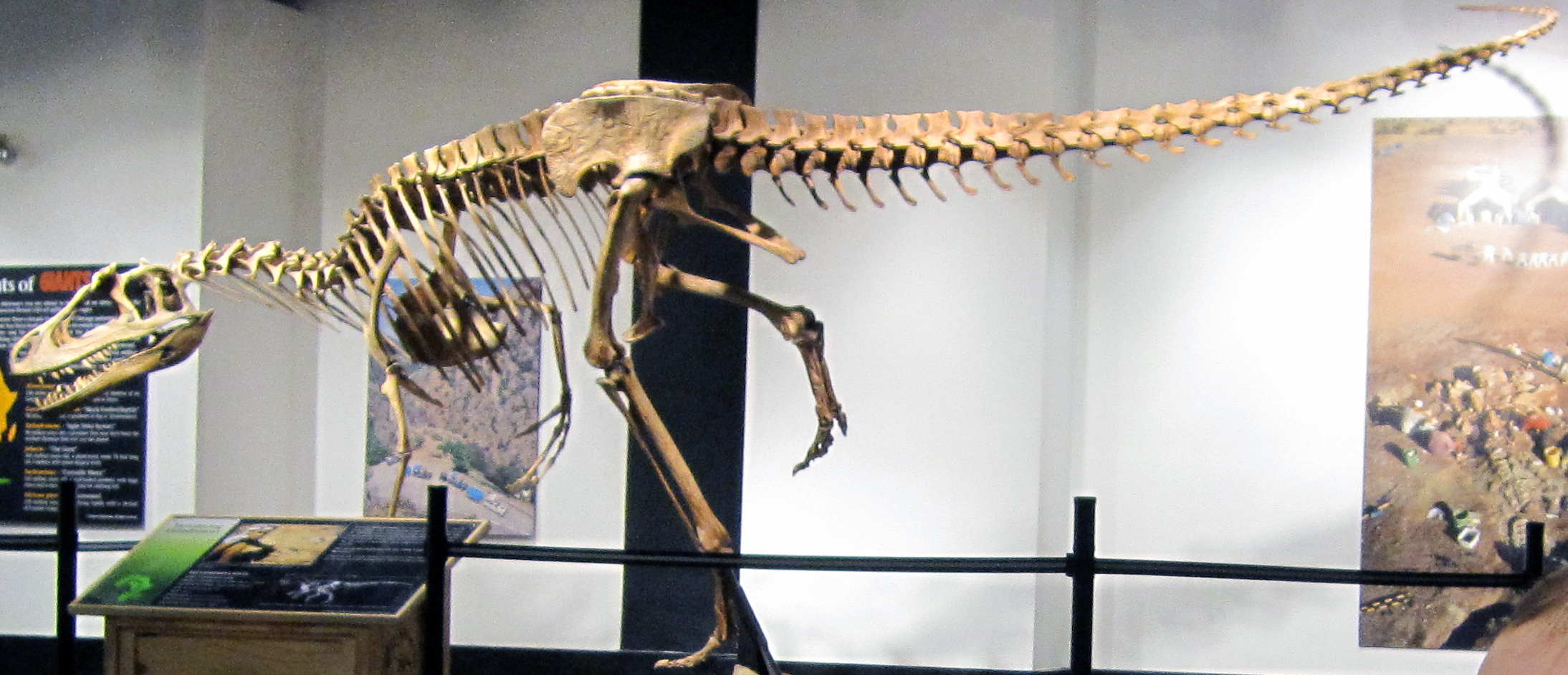 Deltadromeus skeleton reconstruction, Montshire Museum.